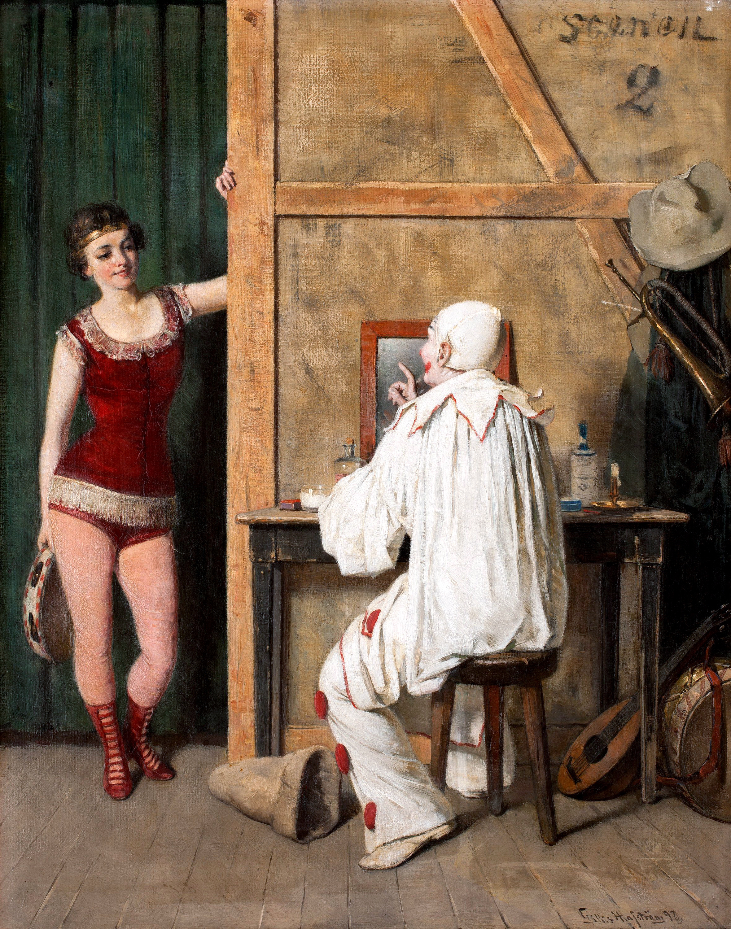 Circus performers